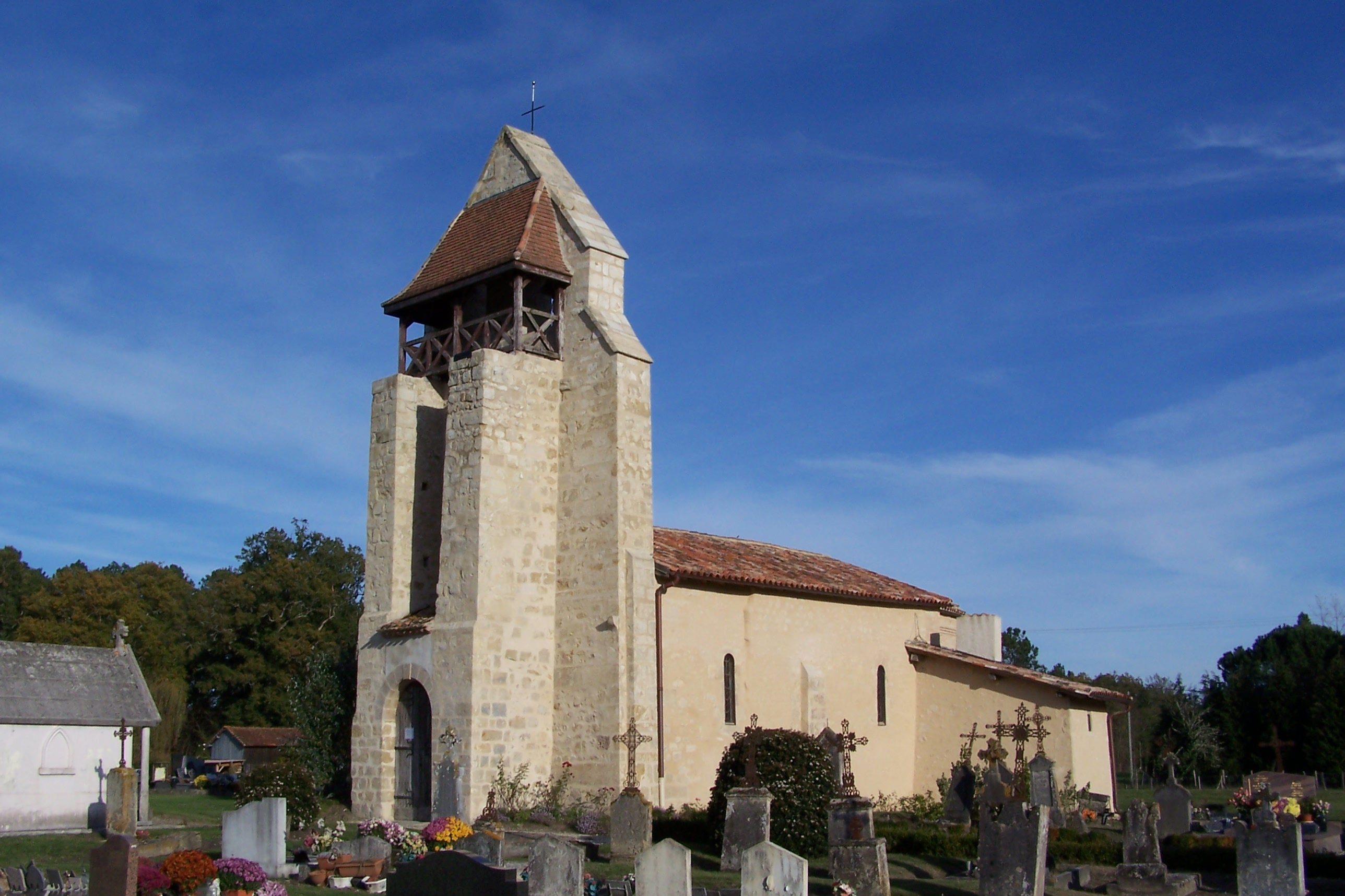 Church of Marimbault (Gironde, France)